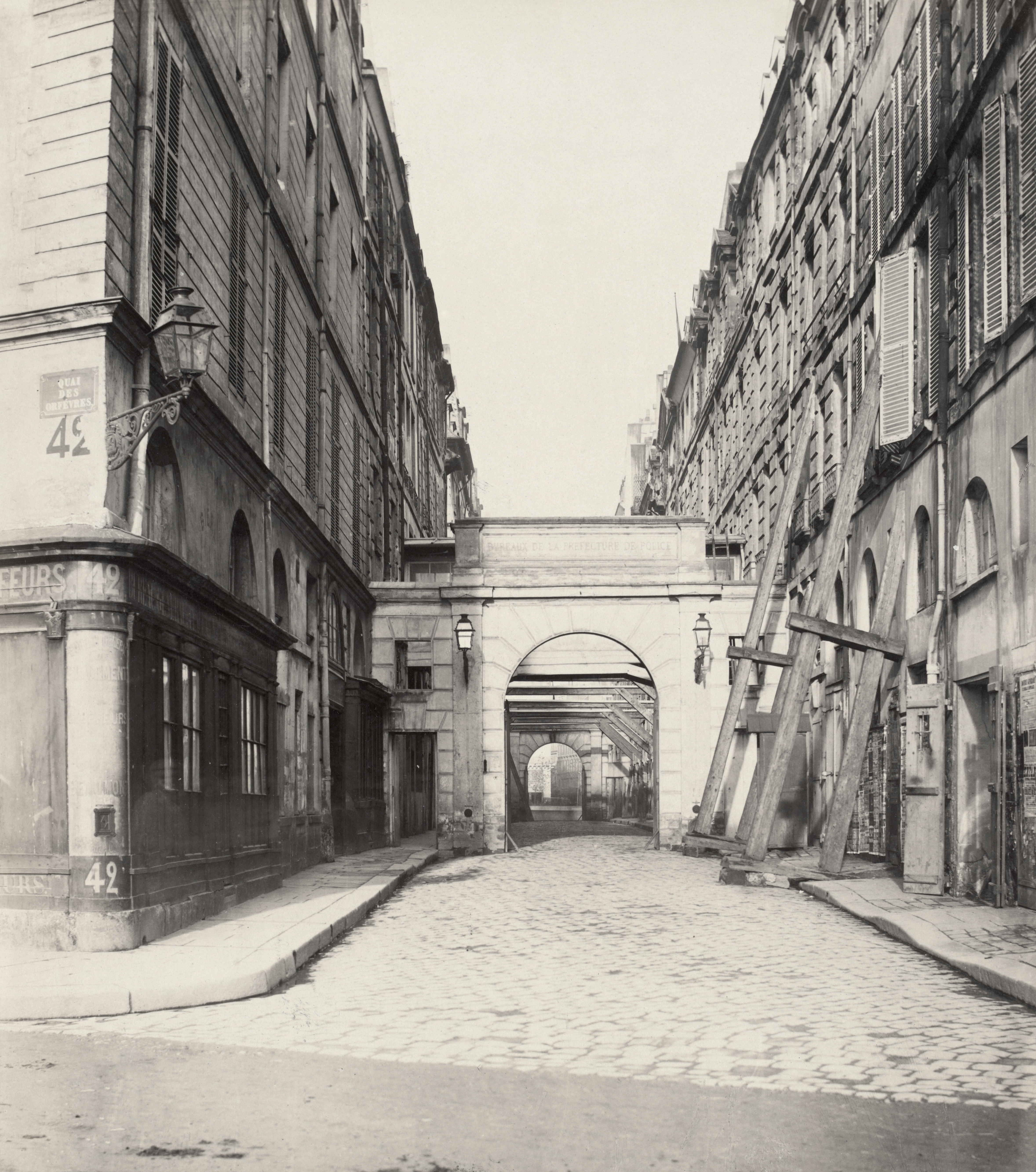 Looking along cobbled street with stone arches traversing the street, wooden builders' scaffolding propping some arches and leaning against wall. Plaque on corner wall reads Quai des Orfèvres. [House number 42]